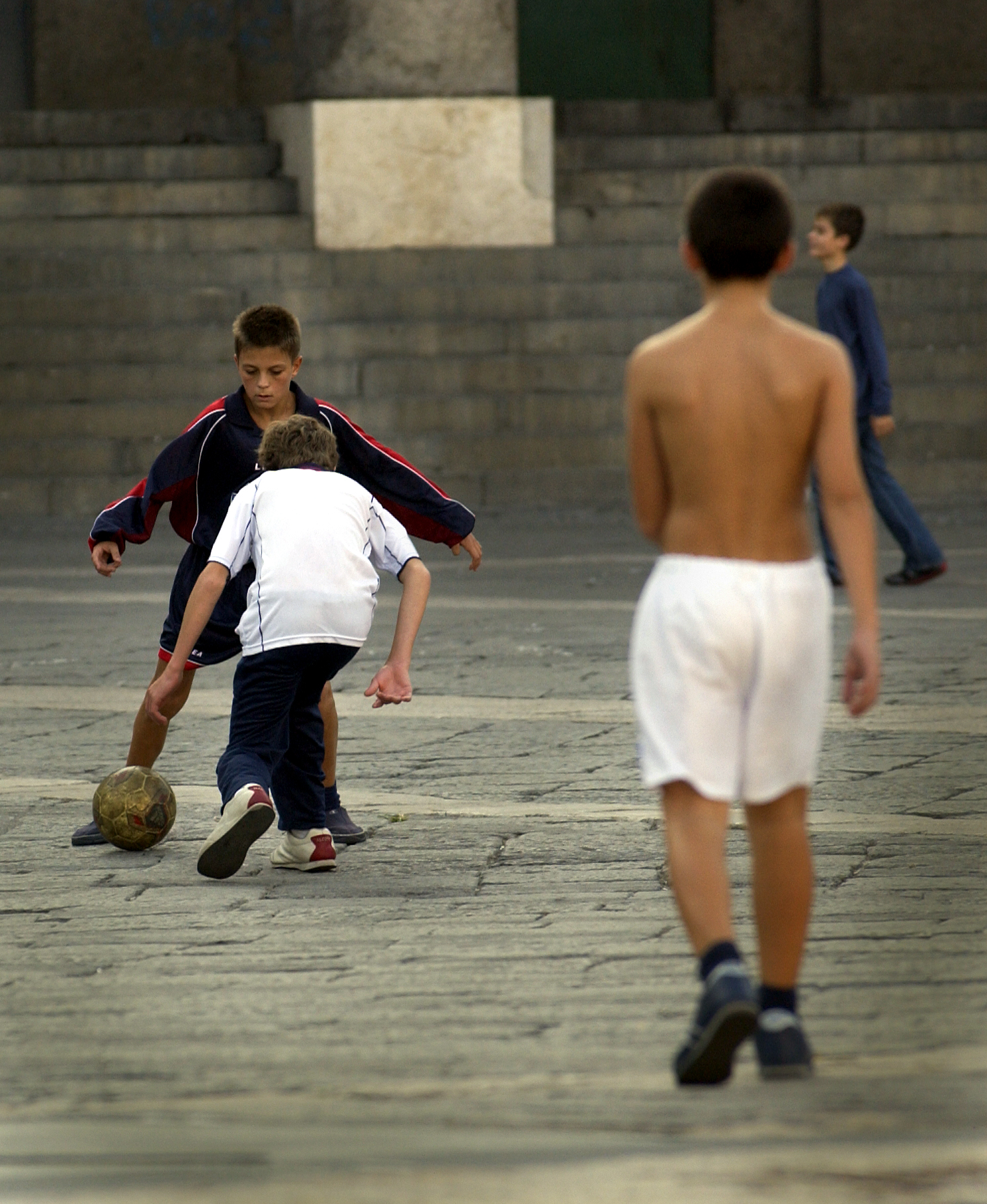 All Hands magazine photo 031009-N-9731T-010 Children play Europe's most popular sport, soccer, in the Piazza del Plebisto. (All Hands, May 2004, pg. 26) Photo by Photographer's Mate 3rd Class Antoine Themistocleous. (RELEASED)